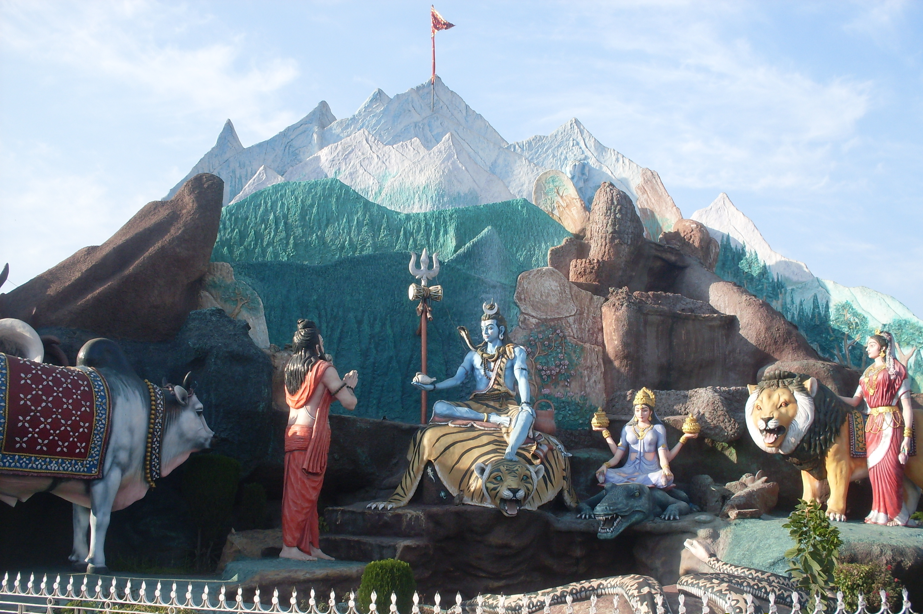 The famous Devi Talab Mandir, near Doaba College, and Doaba Chowk, Jalandhar City, Punjab